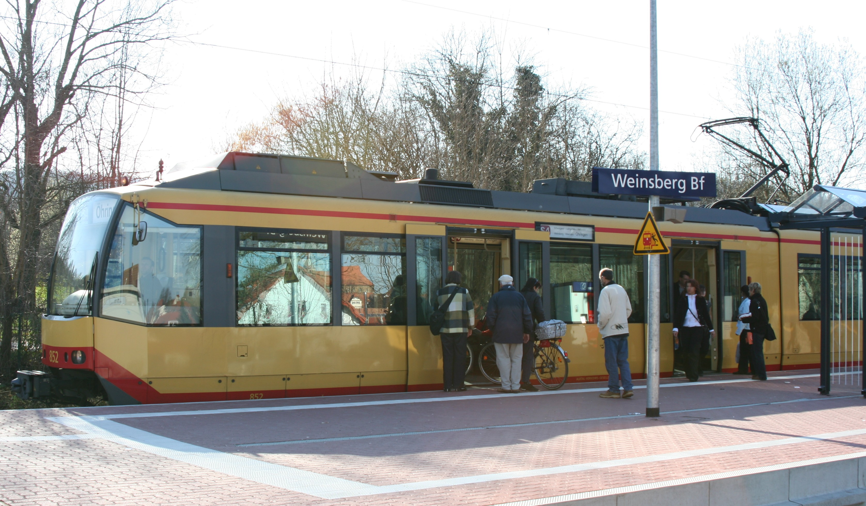 Stadtbahn at the train station in Weinsberg